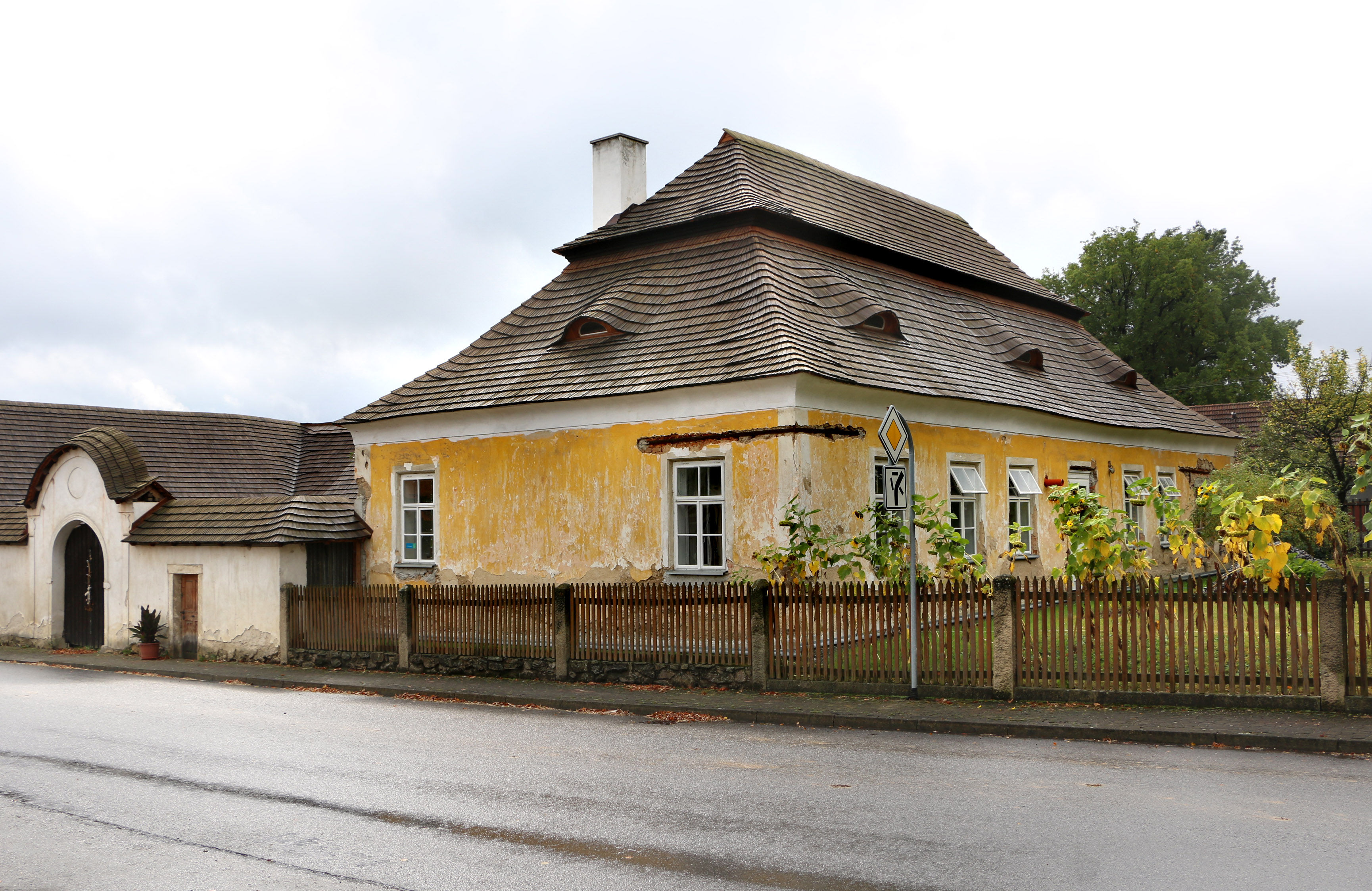 Presbytery in Častrov, Czech Republic.